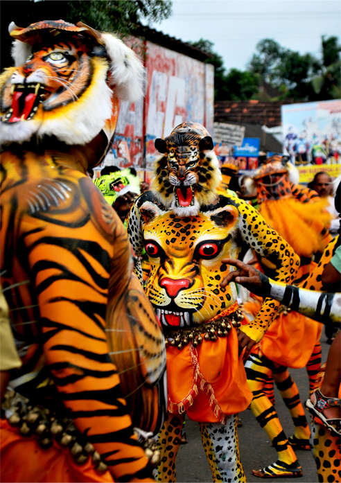 A puli prepared for his dance. Pulikkali is a celebration of Kerala state, India. It is performed by artists’ to entertain people; followed by Onam. Thrissur (district in Kerala) is the center for Pulikkali (tiger dance). Maby teams will be formed from different parts of Thrissur town and prizes will be given for 3 selected teams by the corporation. Each tiger dance performers will be rewarded with 3000 INR (67.56$).